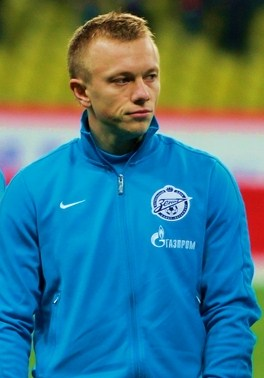 Renat Yanbayev